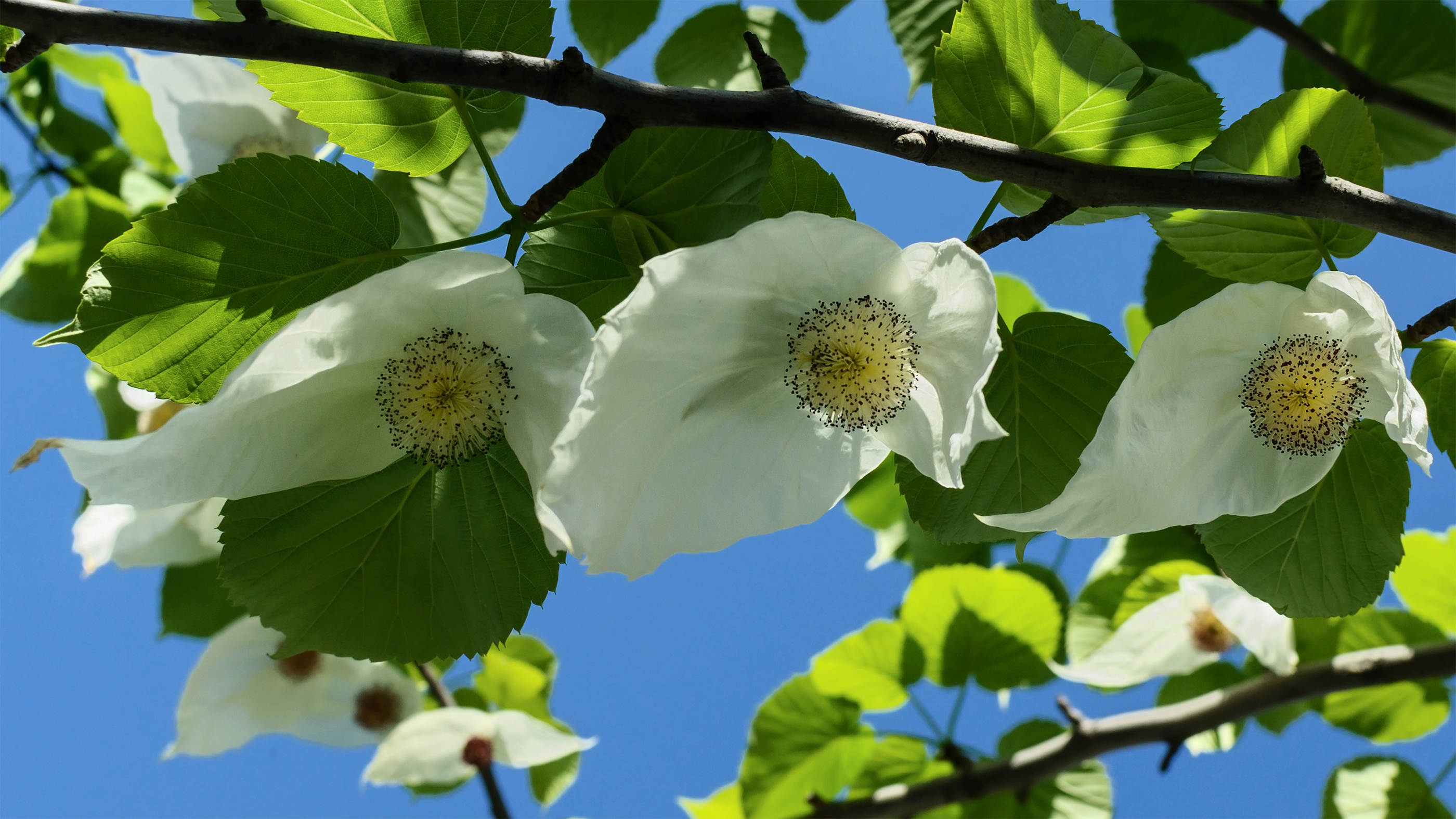 Davidia involucrata (dove tree, handkerchief tree, ghost tree) - Flowering branch